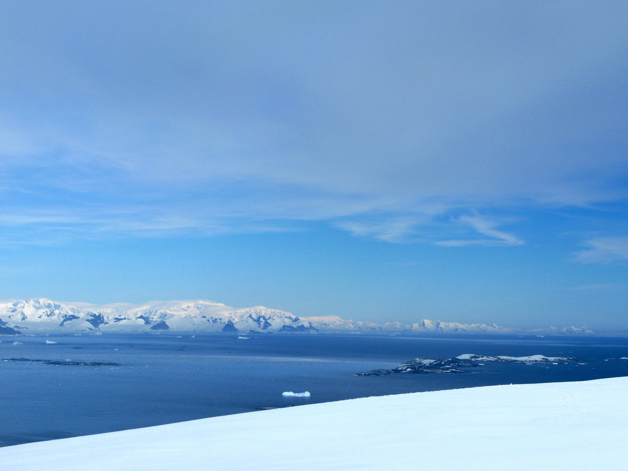 Yalour Islands on the left and Argentine Islands on the right. On the center, Grandidier Channel